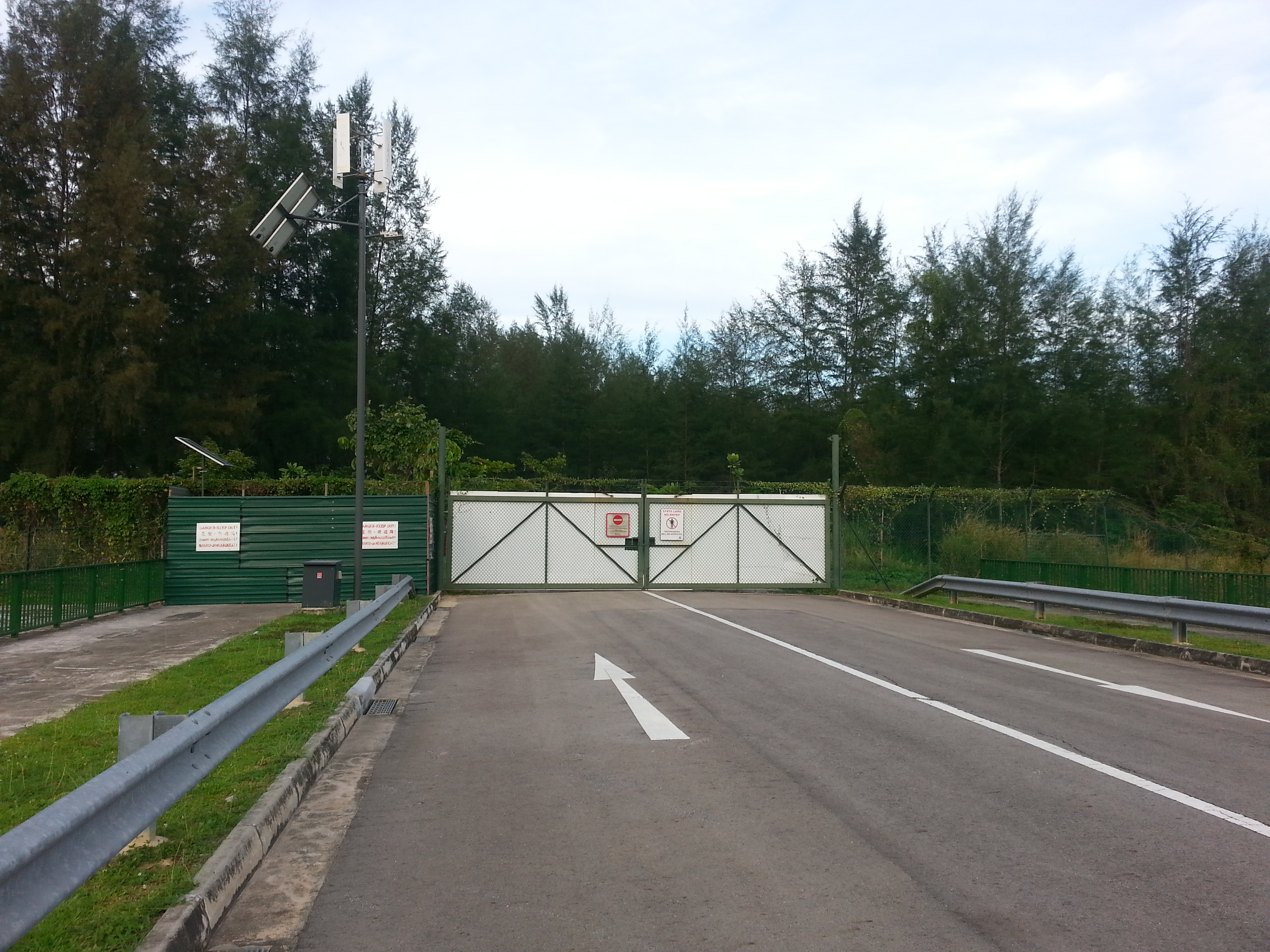 Entrance to Pulau Serangoon from Punggol Promenade Nature Walk. From the picture, the gate is locked. However, the gate is no longer locked as of present day. The island is open to all visitors from 7am to 7pm daily.